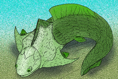 Reconstructions of the late Devonian arthrodire placoderm Groenlandaspis pennsylvanica of what is now Pennsylvania. (C) Stanton F. Fink